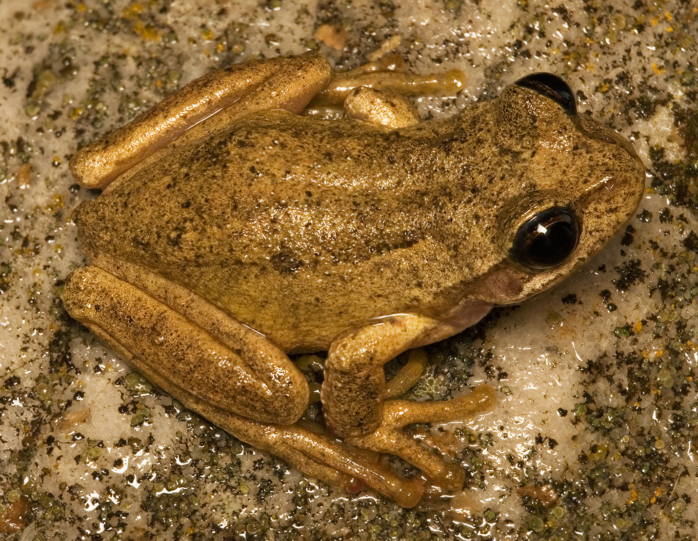 A Brown Tree Frog (Litoria ewingii) resting on a rock in Tasmania, Australia